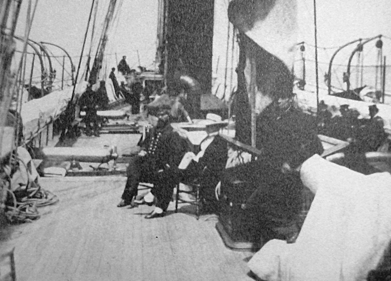 Deck of USRC Wayanda, ca. 1863. The two seated figures are reportedly Captain J. White and Secretary of State William H. Seward. Some early sources (old version of U.S. Coast Guard website) suggested that shadowy image of Abraham Lincoln under the sail is thought to have been added at a later date, while later ones (2015 article in the Alaska History) suggests that Abraham Lincoln was initially on the photo, however, his body and face were blurred on the original photo and "repaired" later. This is one of the earliest photos ever taken aboard a revenue cutter.